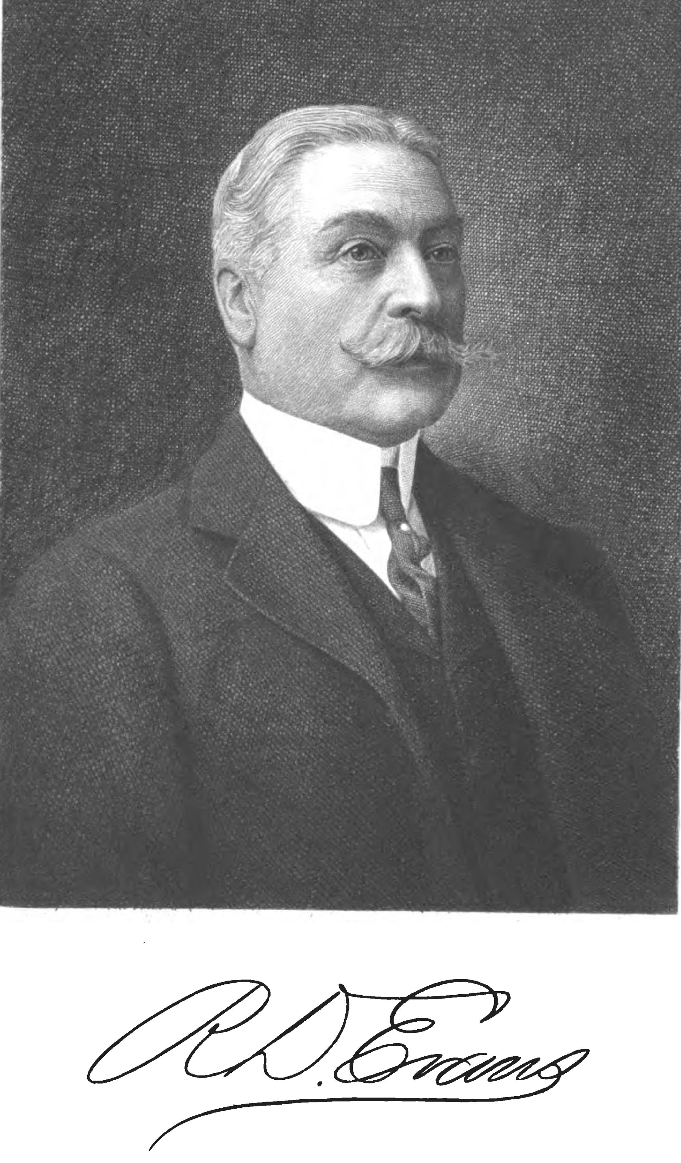 Robert Dawson Evans, 1843–1909, born in St. John [now Saint John], New Brunswick [Canada], rose to prominence and influence in Boston as an industrialist and arts patron.